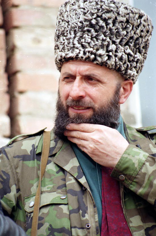 President Yandarbiev